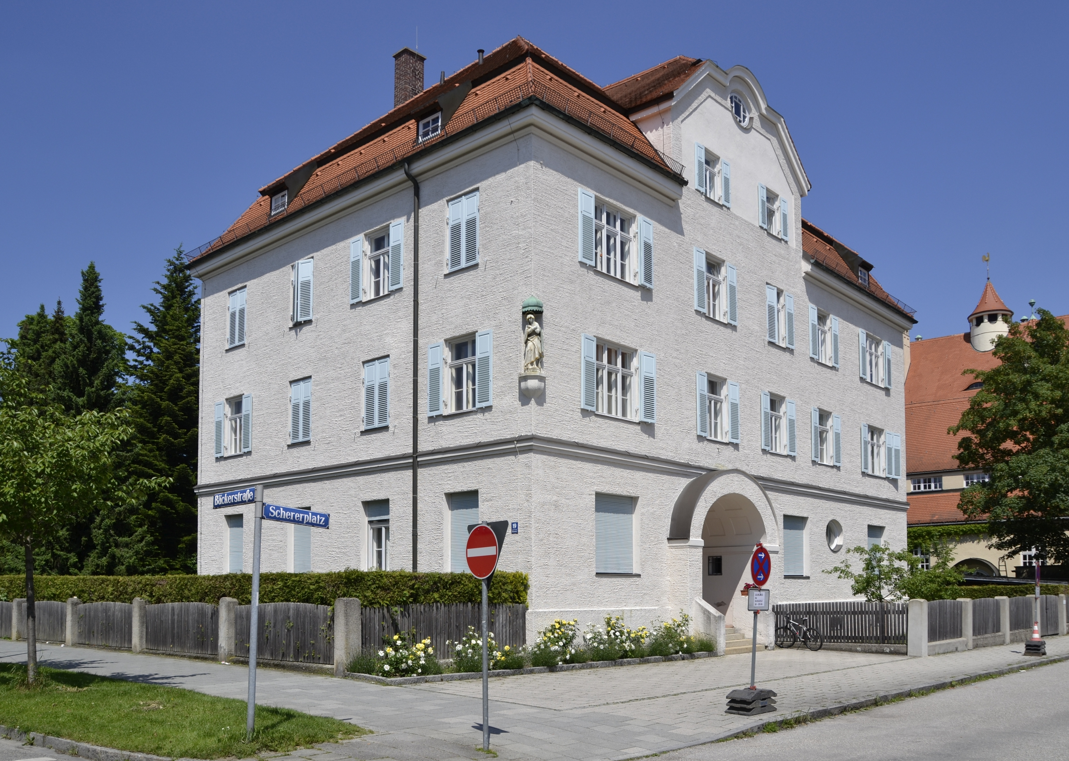 The Catholic rectory in Munich-Pasing.